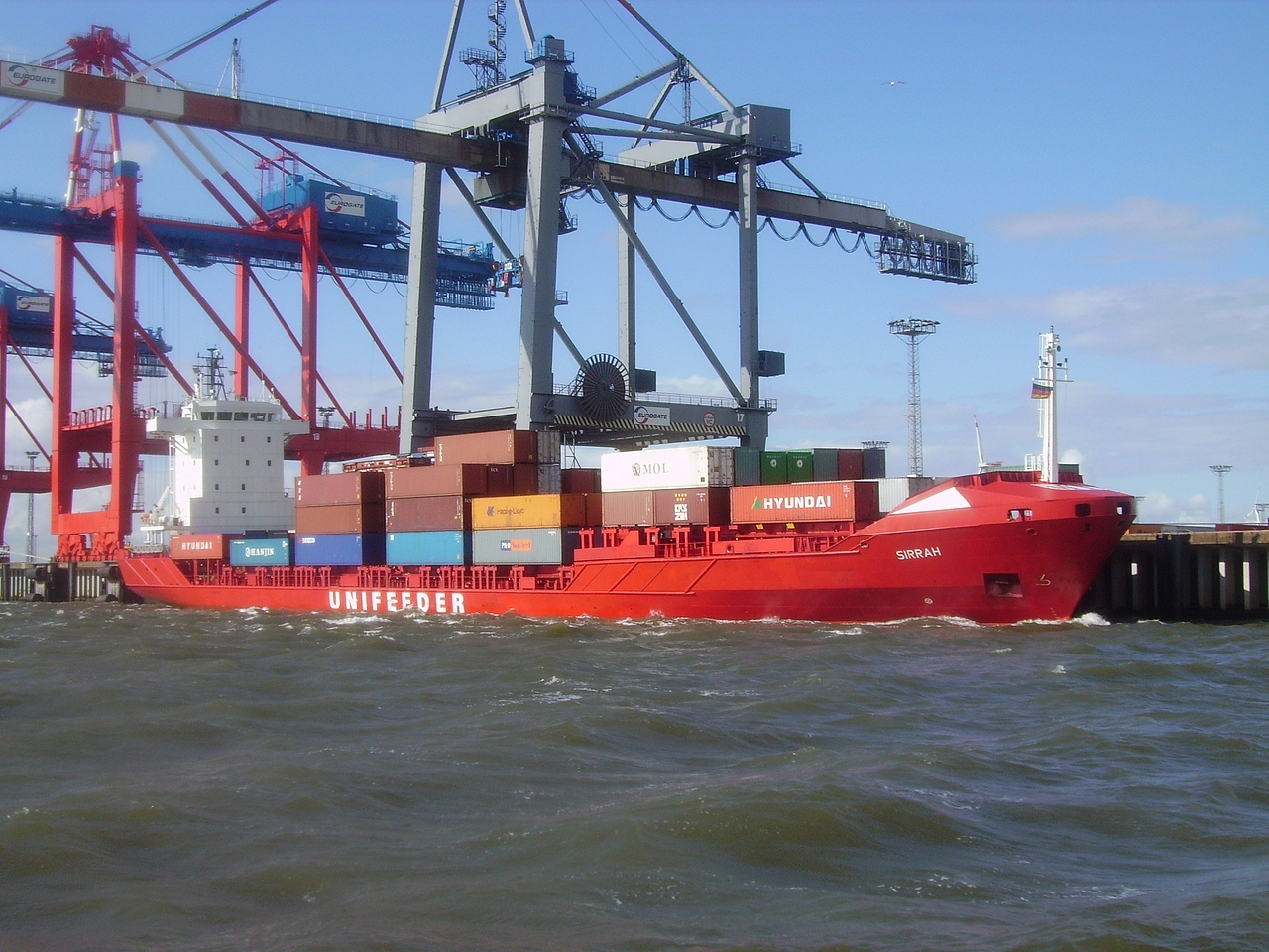 The feeder ship Sirrah at the container terminal of Bremerhaven in Germany